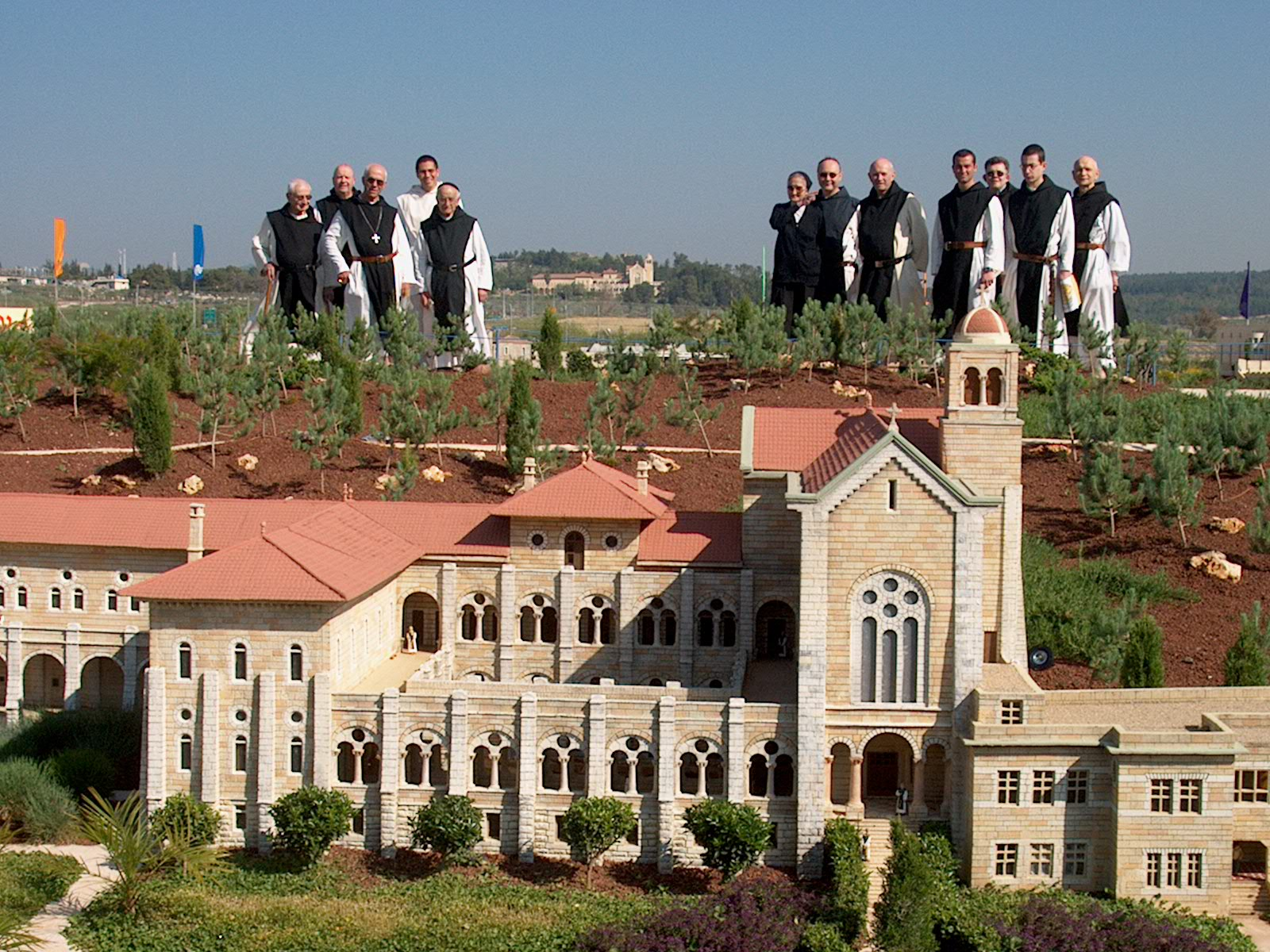 Heads of the Trappists Order compering Their monastery in Latrun to the Model in Mini Israel (1:25 scale)